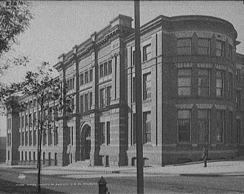 Wistar Institute of Anatomy, University of Pennsylvania, Philadelphia, Pa